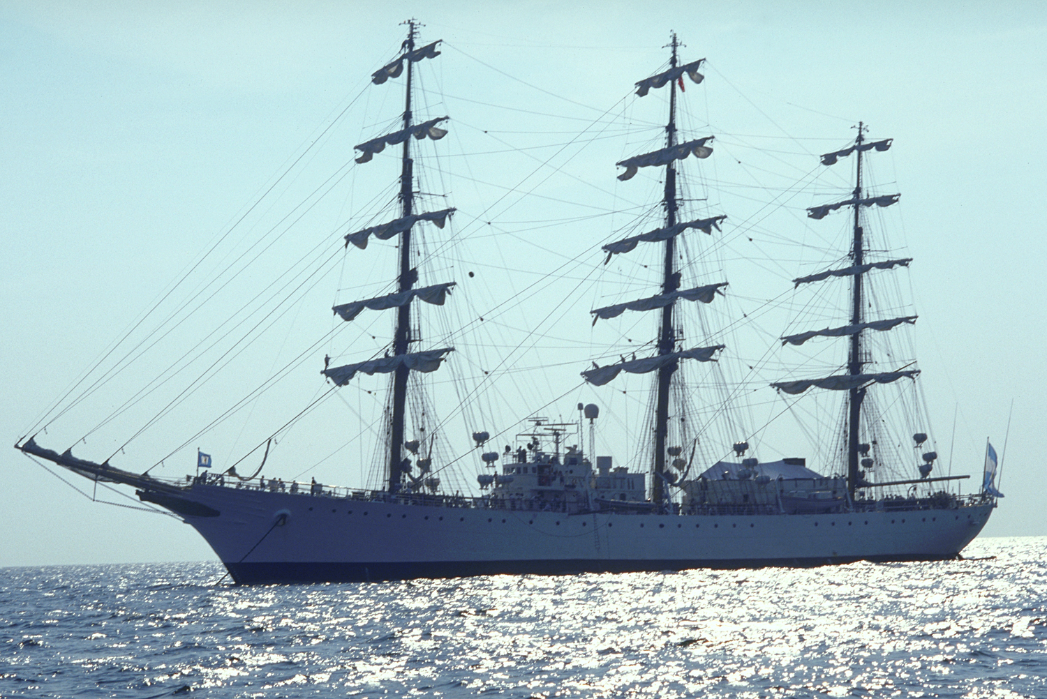 ARA Libertad (Q-2), a training ship of the Argentine Navy, at anchor off the coast of Tybee Island, Georgia, USA in 1998. Coordinates